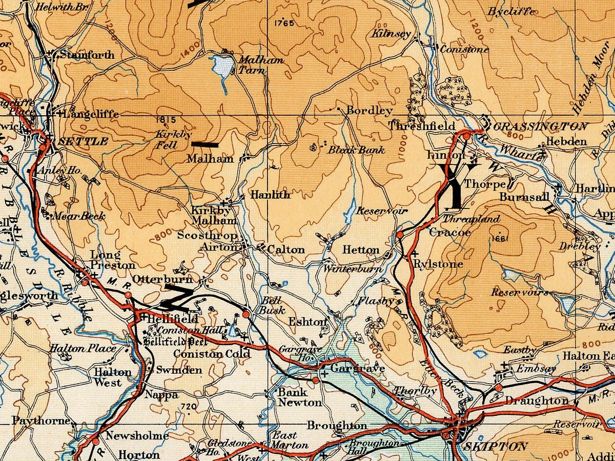 Map of the Airedale area taken from the 1922 Ordnance Survey Atlas of England and Wales